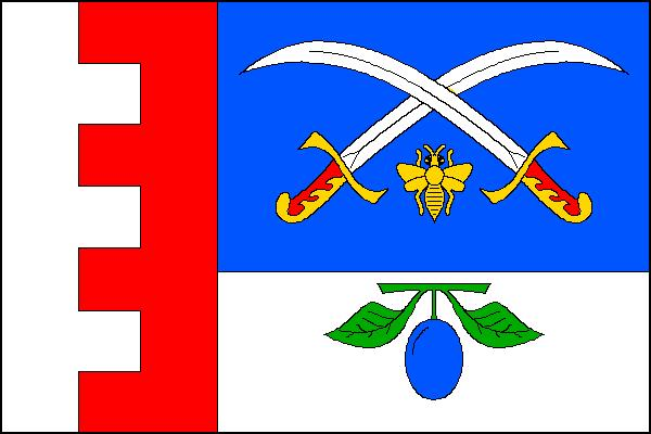 Kelníky,_vlajka